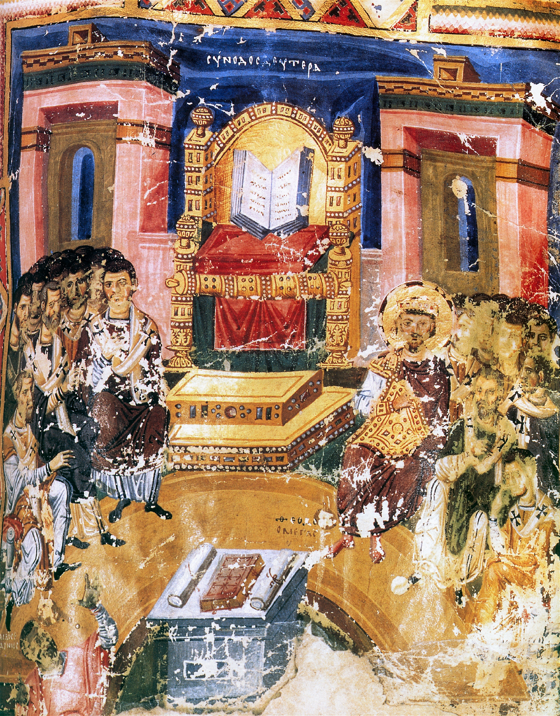 Homilies of Grégory de Nazianzus (BnF MS grec 510), folio 355. 1st ecumenical council of Constantinople (381)